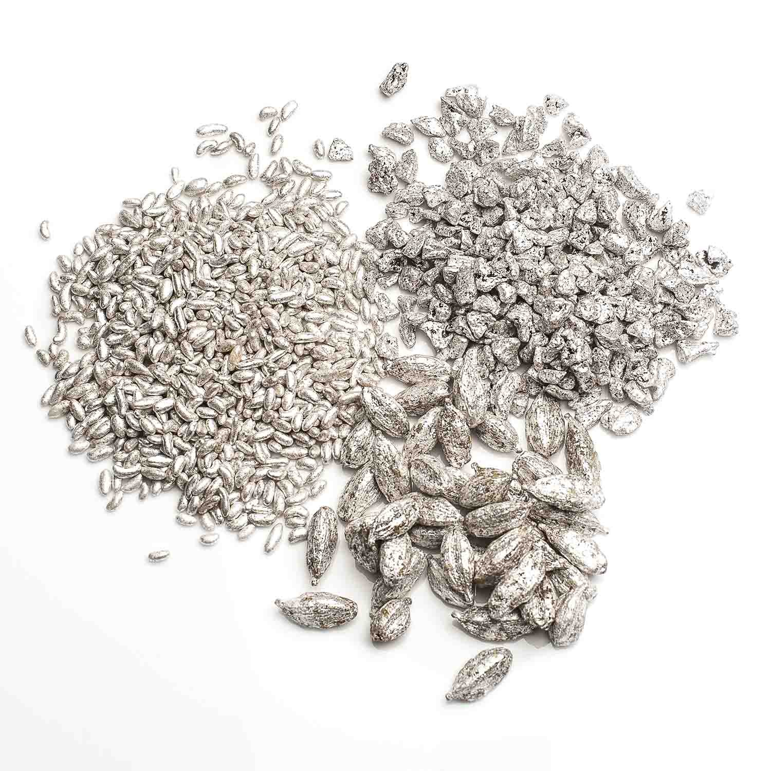 Varak used in huge quantity in coating of dry fruits and spices